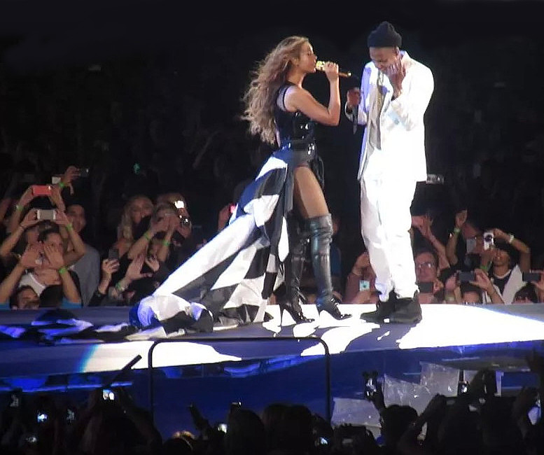 Beyoncé and Jay-Z performing at Safeco Field in Seattle, Washington during their co-headlining "On the Run Tour", on July 31, 2014.